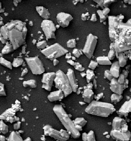 Scanning electron microscopy image of as received LiAlH4 powder, Created by Andr